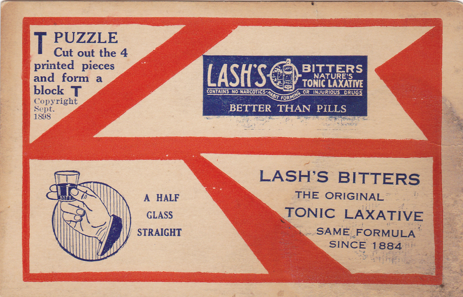 Lash's bitters T puzzle (trade card)